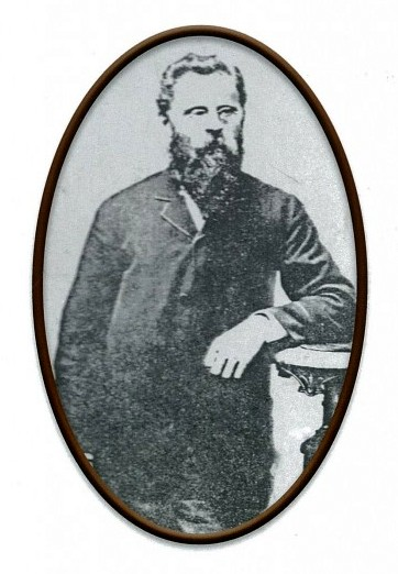 portrait C.Blackmann architect (deceased), designer of Oybin